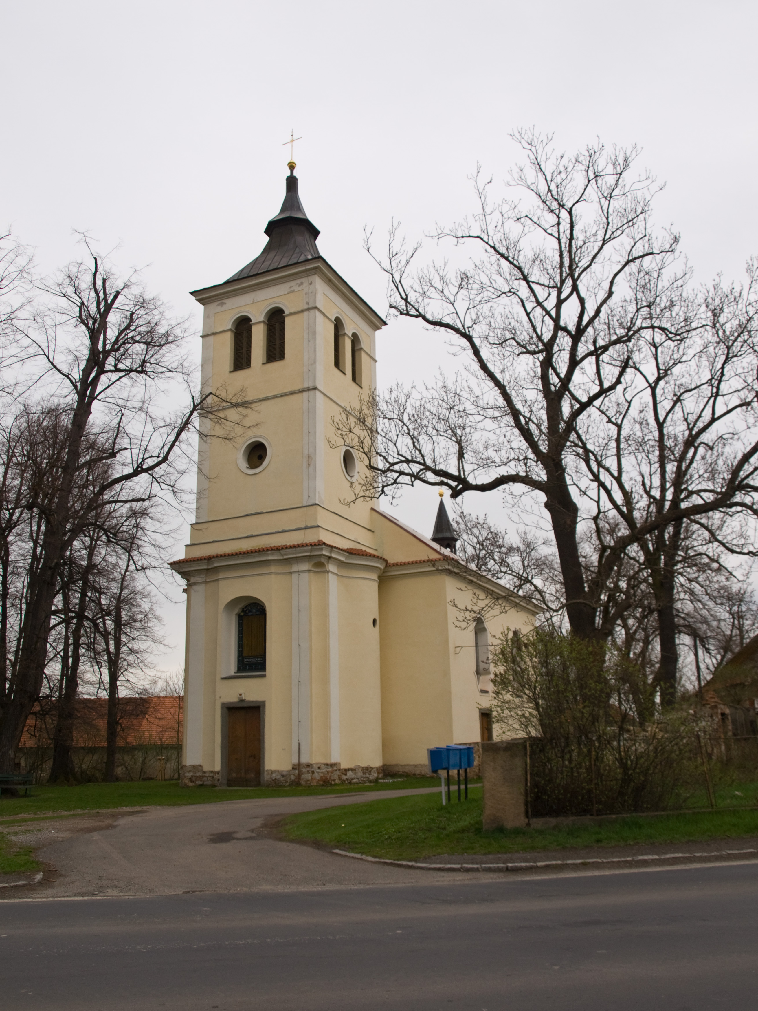 Bezdědice, Hostomice, Beroun District, Central Bohemian Region, Czech Republic